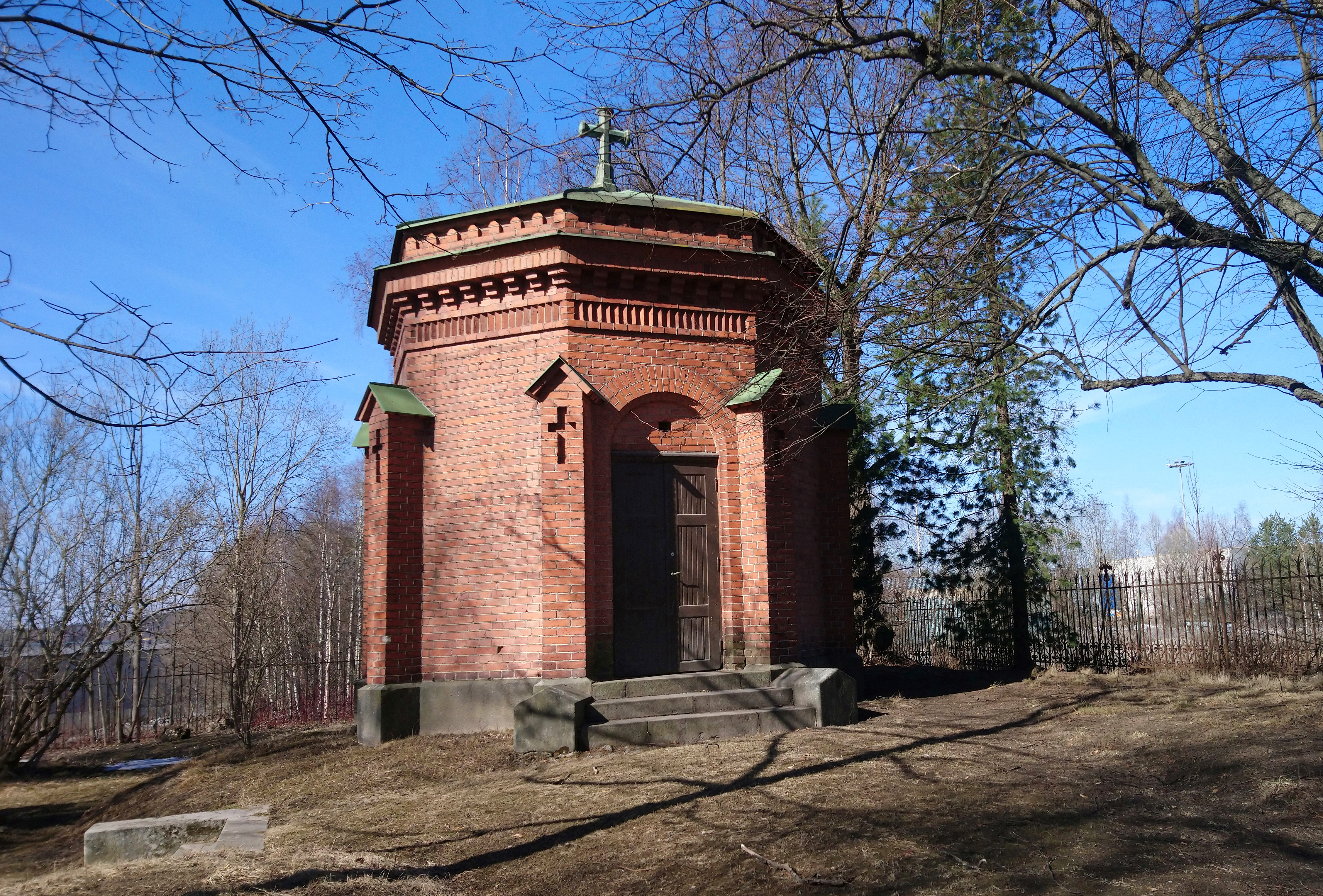 Nottbeck chapel, designed by Maria Lydia von Nottbeck.